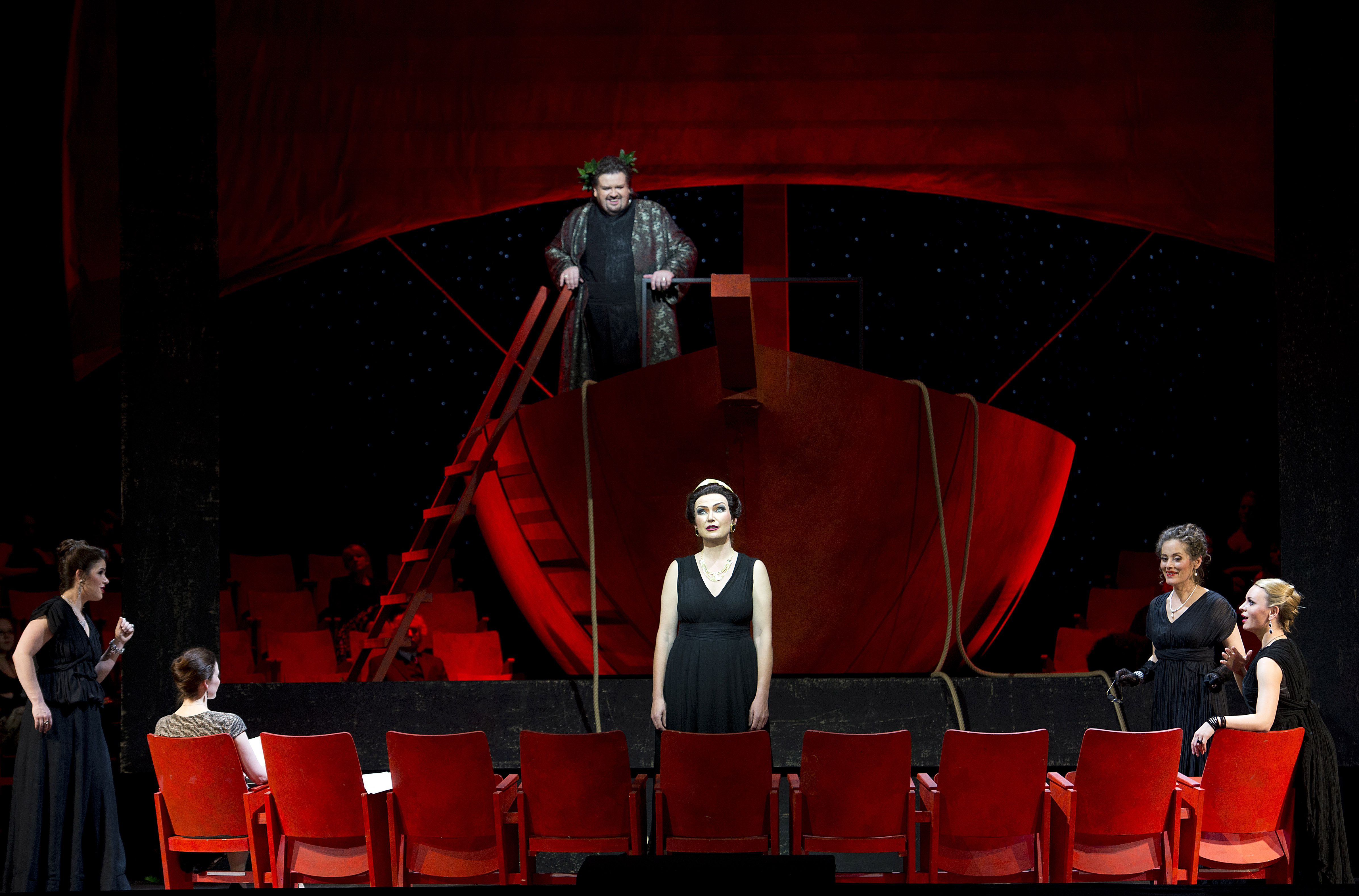 Production of Ariadne auf Naxos at Hamburgische Staatsoper 2012, stage photo: Rebecca Jo Loeb as Dryade (left, standing), Johan Botha as Tenor / Bacchus (top, in ship), Anne Schwanewilms as Primadonna / Ariadne (centre, standing in black dress), Gabriele Rossmanith as Echo (second from right), Katerina Tretyakova as Najadev (right), extras.